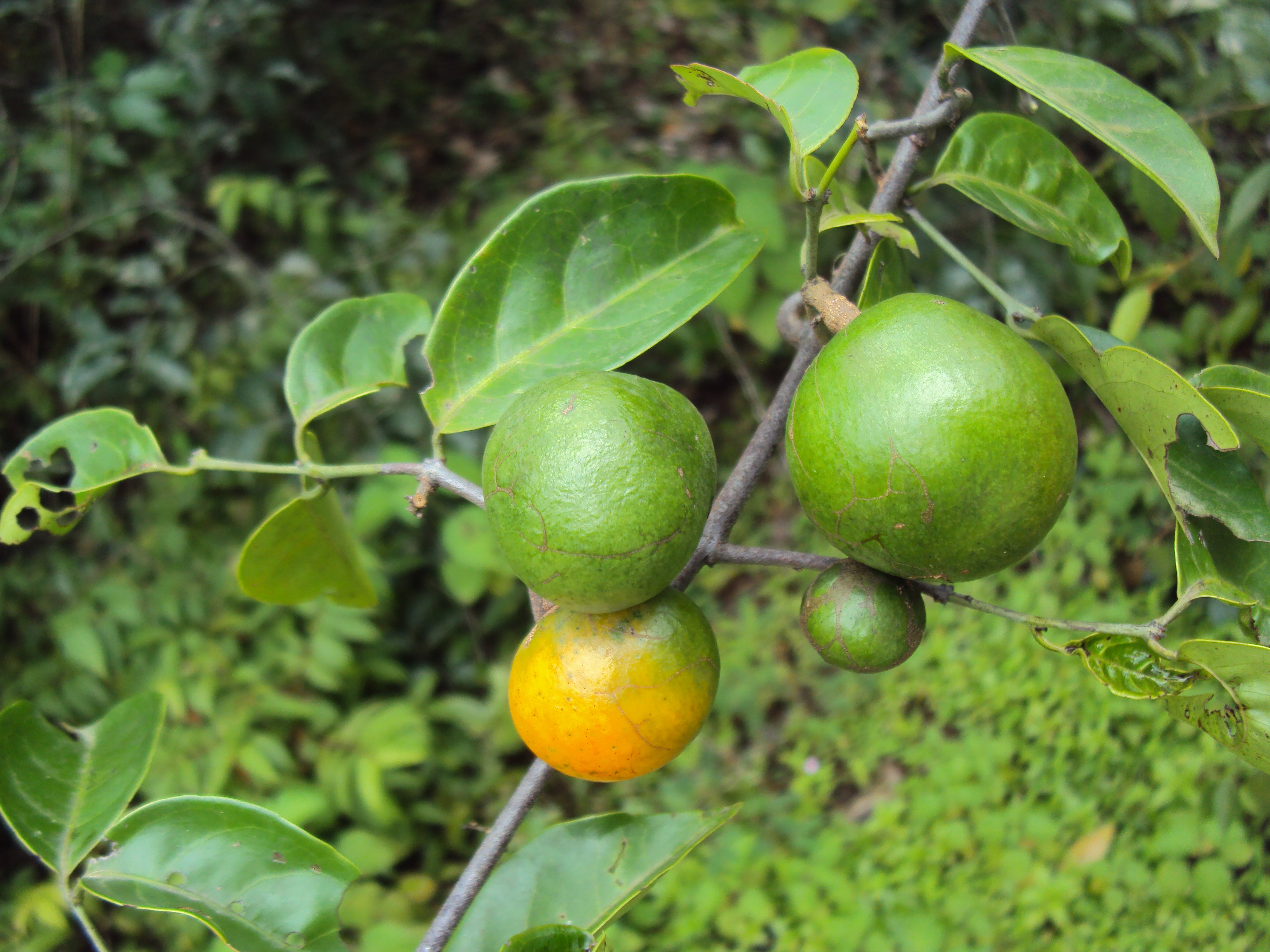 Salacia fruticosa